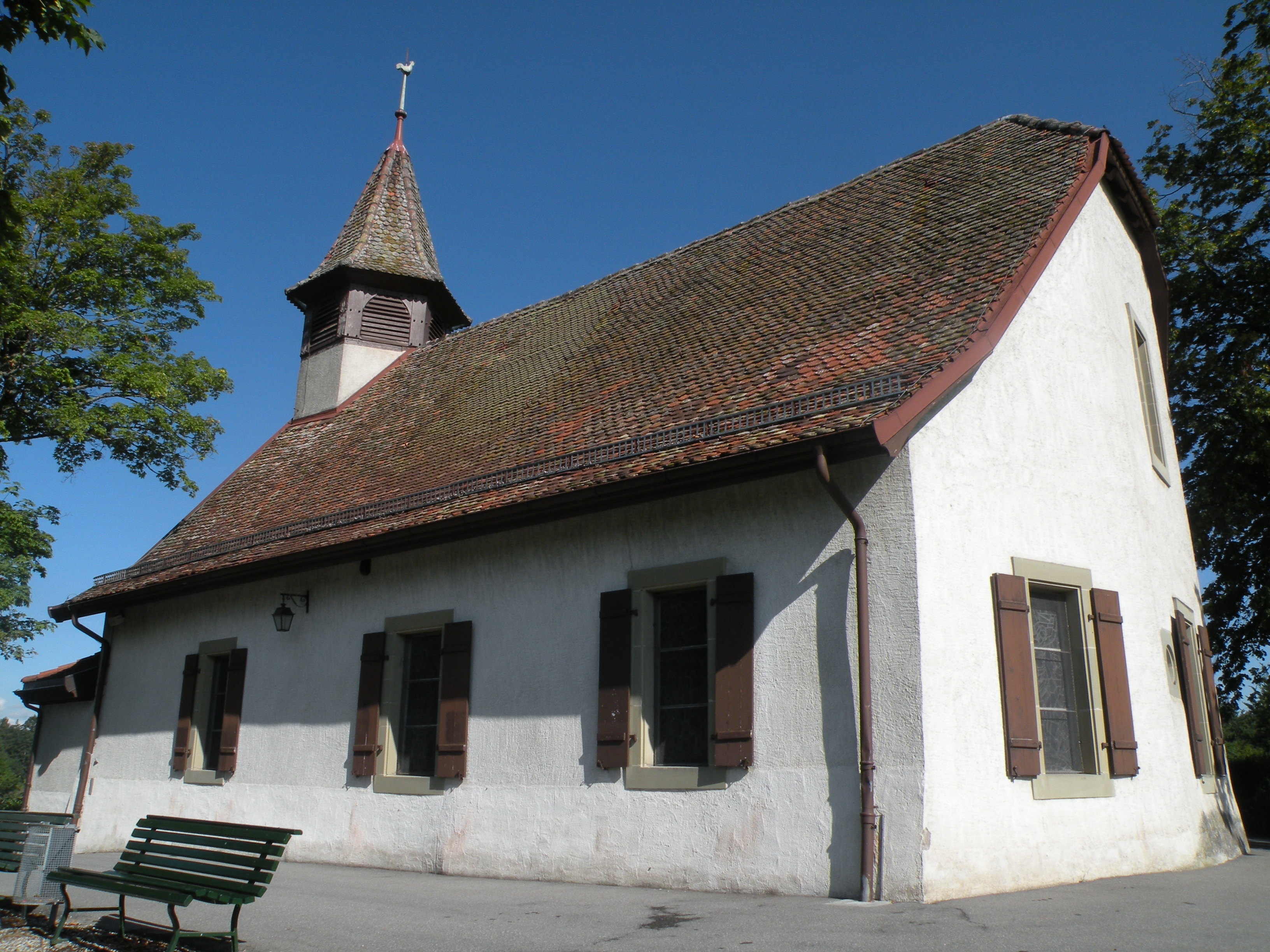 Church of Epalinges